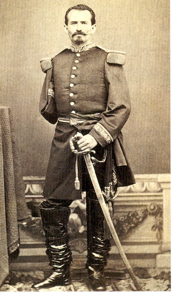 Mexican General Manuel González